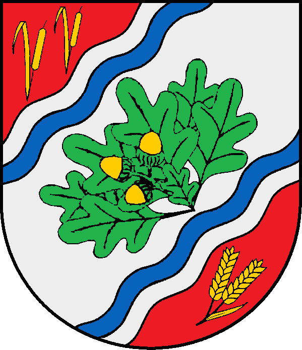 Coat of arms of the municipality Loop in Schleswig-Holstein, Germany.